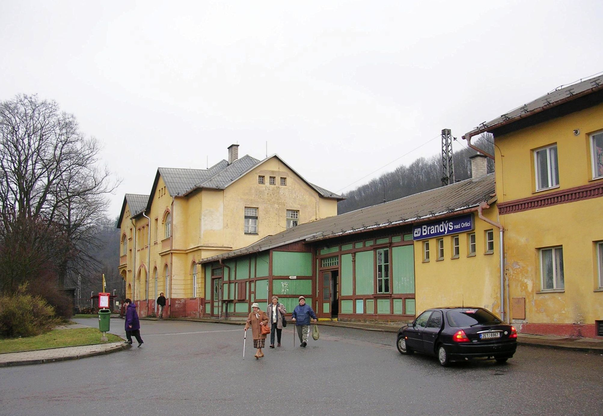 Brandýs nad Orlicí, the Czech Republic.